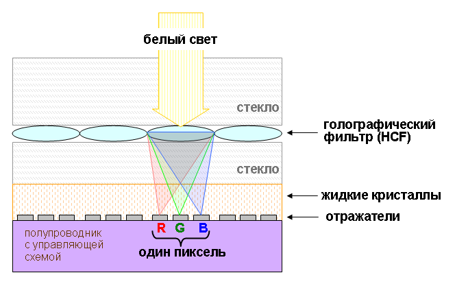 Scheme of LCoS (Liquid crystal on silicon) Microdevice with HSF (Hologram Color Filter) Упрощенная схема LCoS матрицы c голографическим цветовым фильтром (HSF) - решение для одноматричных LCoS устройств.